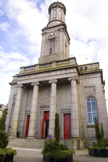 Aberdeen Arts Centre Once a church, the building has found new life as the Aberdeen Arts Centre, a major focus for community arts in Aberdeen.